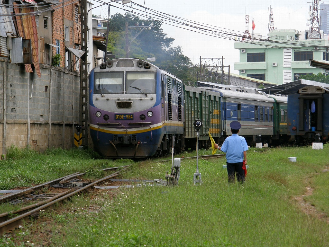 After the war, Saigon was renamed Ho Chi Minh City, but the train station still has the old name, Ga Sài Gòn (Saigon Station)